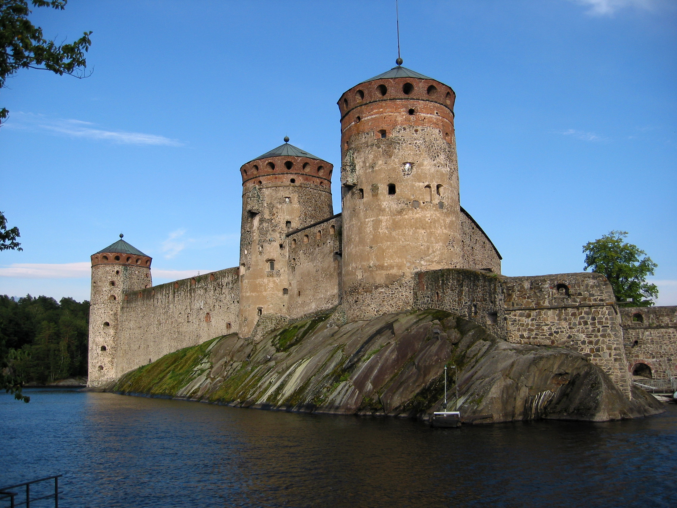 Olavinlinna in Savonlinna, Finland